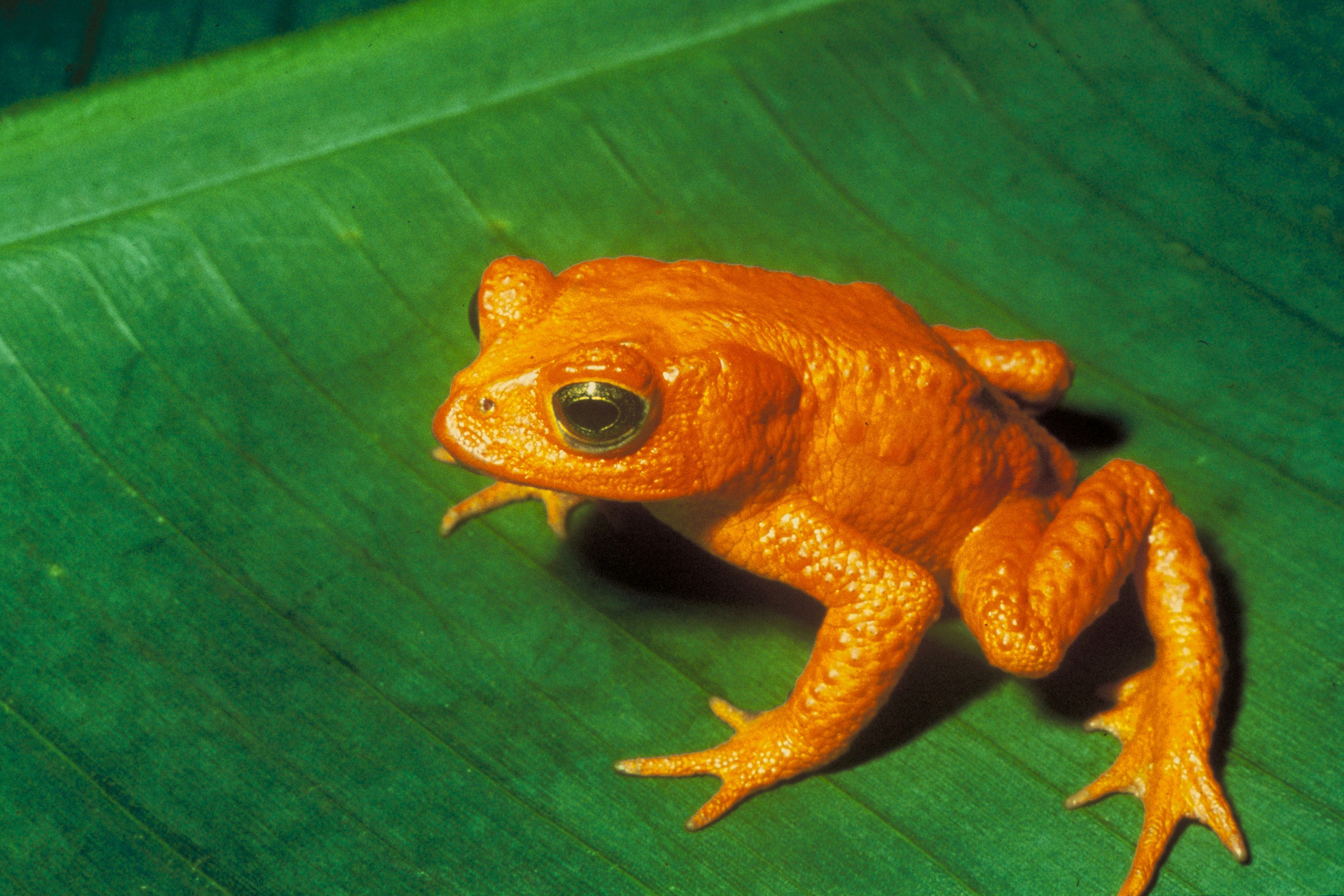 Golden toad (Bufo periglenes) †.